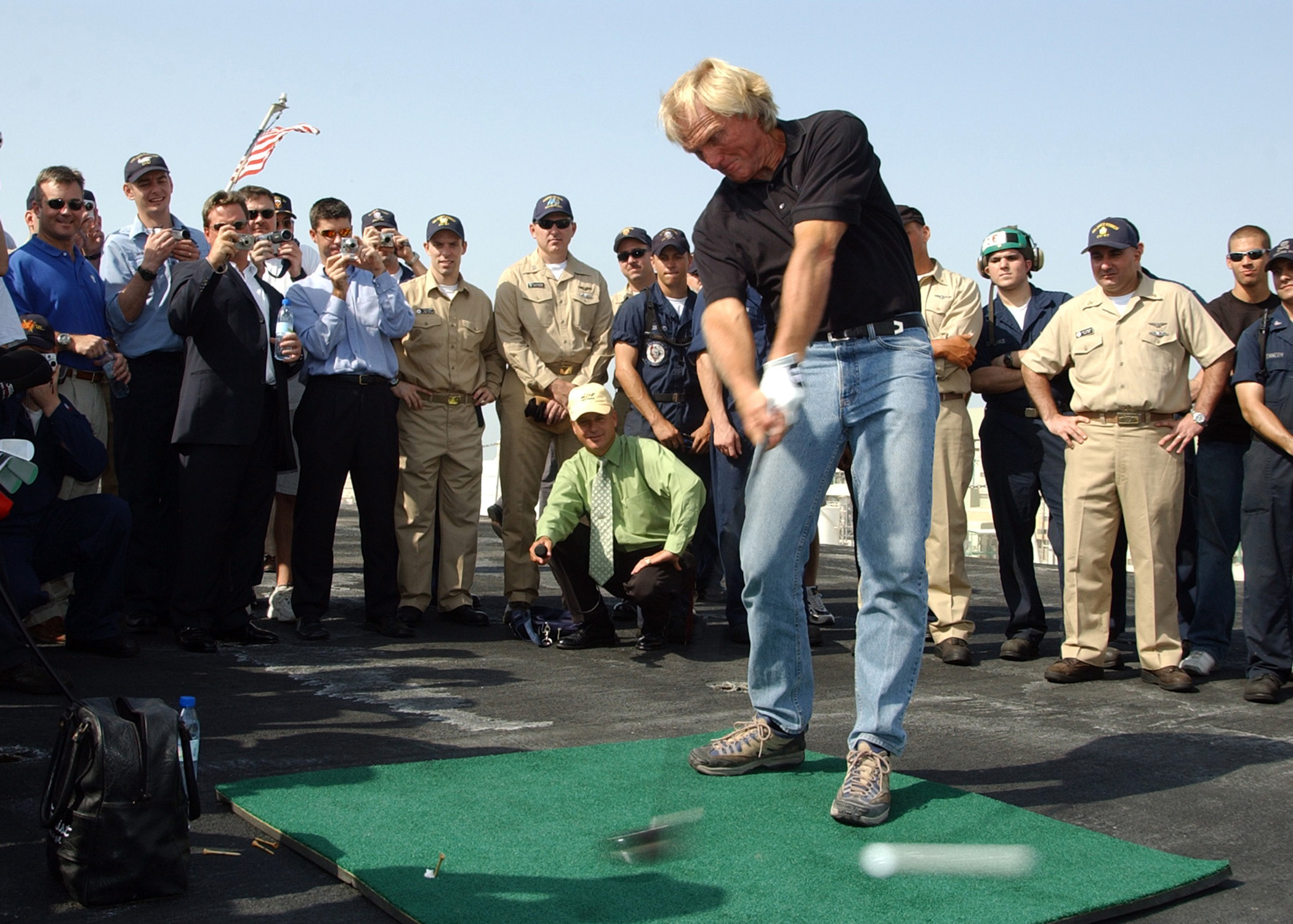 Dubai, U.A.E. (Oct. 11, 2004) - Professional golfer Greg Norman drives a golf ball off the flight deck during his visit to the conventionally powered aircraft carrier USS John F. Kennedy (CV 67) during the ship's port visit to Dubai, U.A.E. Kennedy and embarked Carrier Air Wing Seventeen are currently on deployment in the 5th fleet area of responsibility in support of Operation Iraqi Freedom (OIF). U.S. Navy photo by Photographer's Mate Airman Tommy Gilligan (RELEASED)